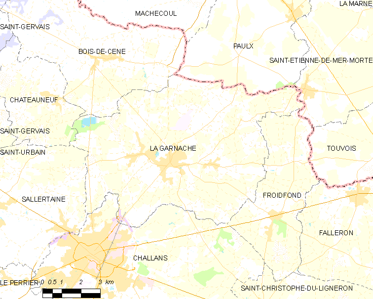 Map of French municipality La Garnache